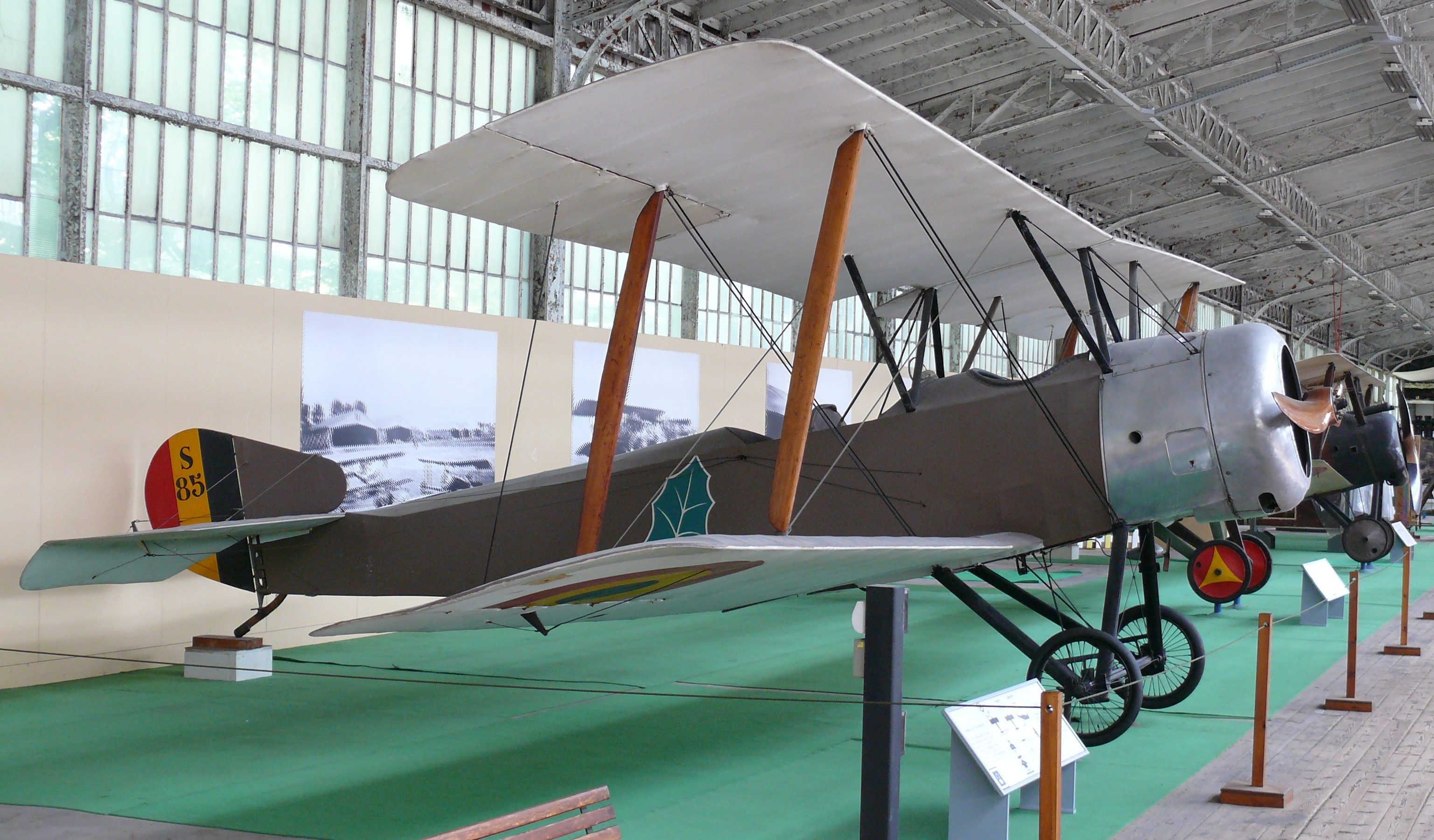 Sopwith Strutter (c/n 66) in the Royal Military Museum at the Jubelpark, Brussels.